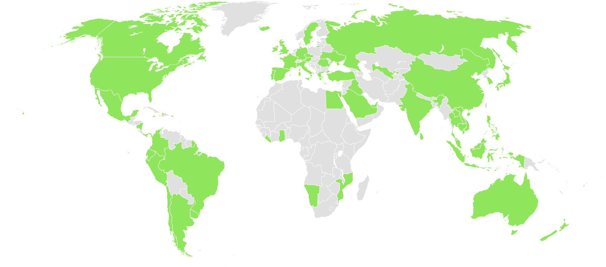 This image depicts all of the countries visited by Anthony Bourdain on the show "No Reservations" as of episode 216. Those countries are colored green.